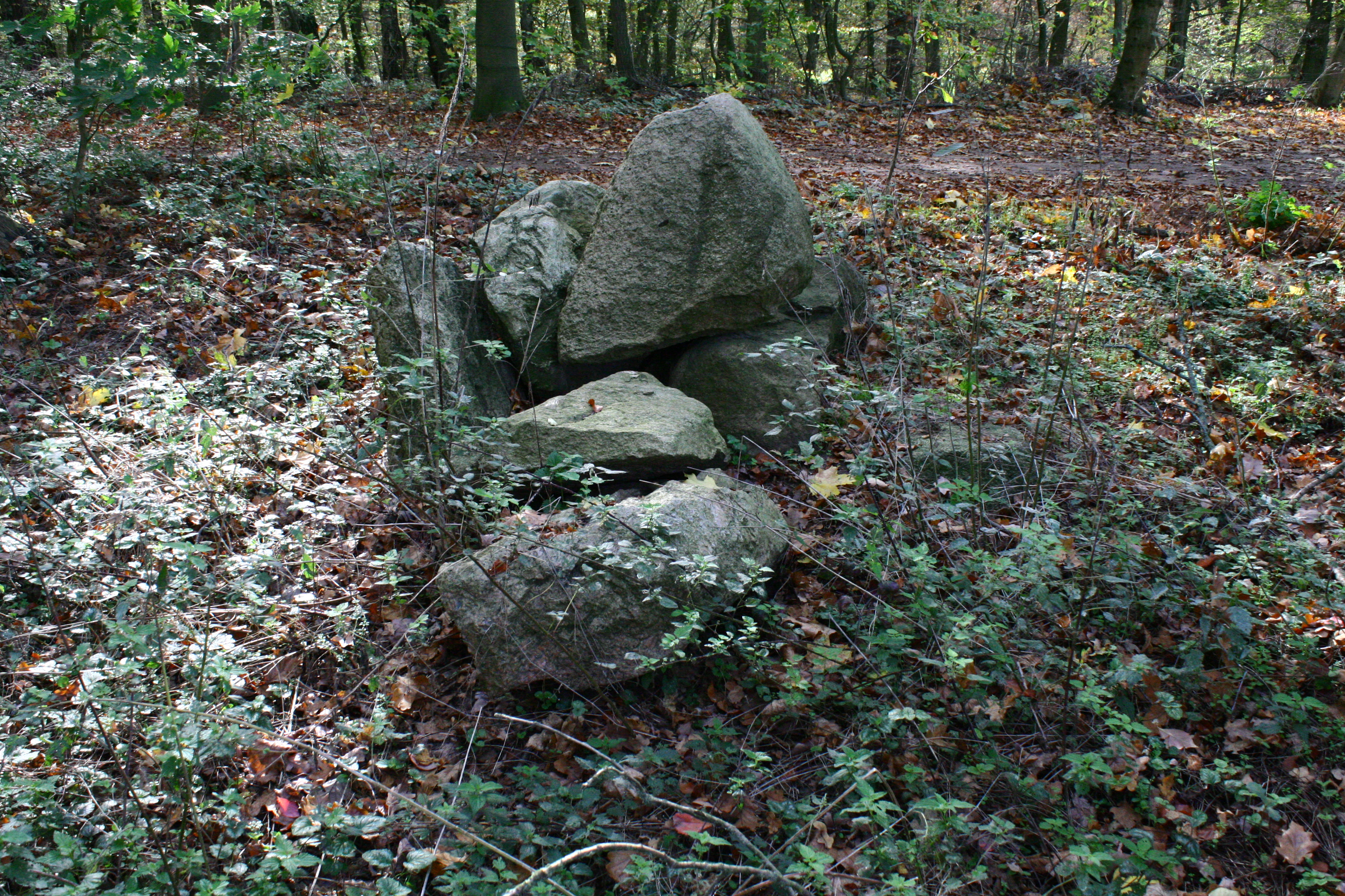 Megalithic tomb Süplingen 6